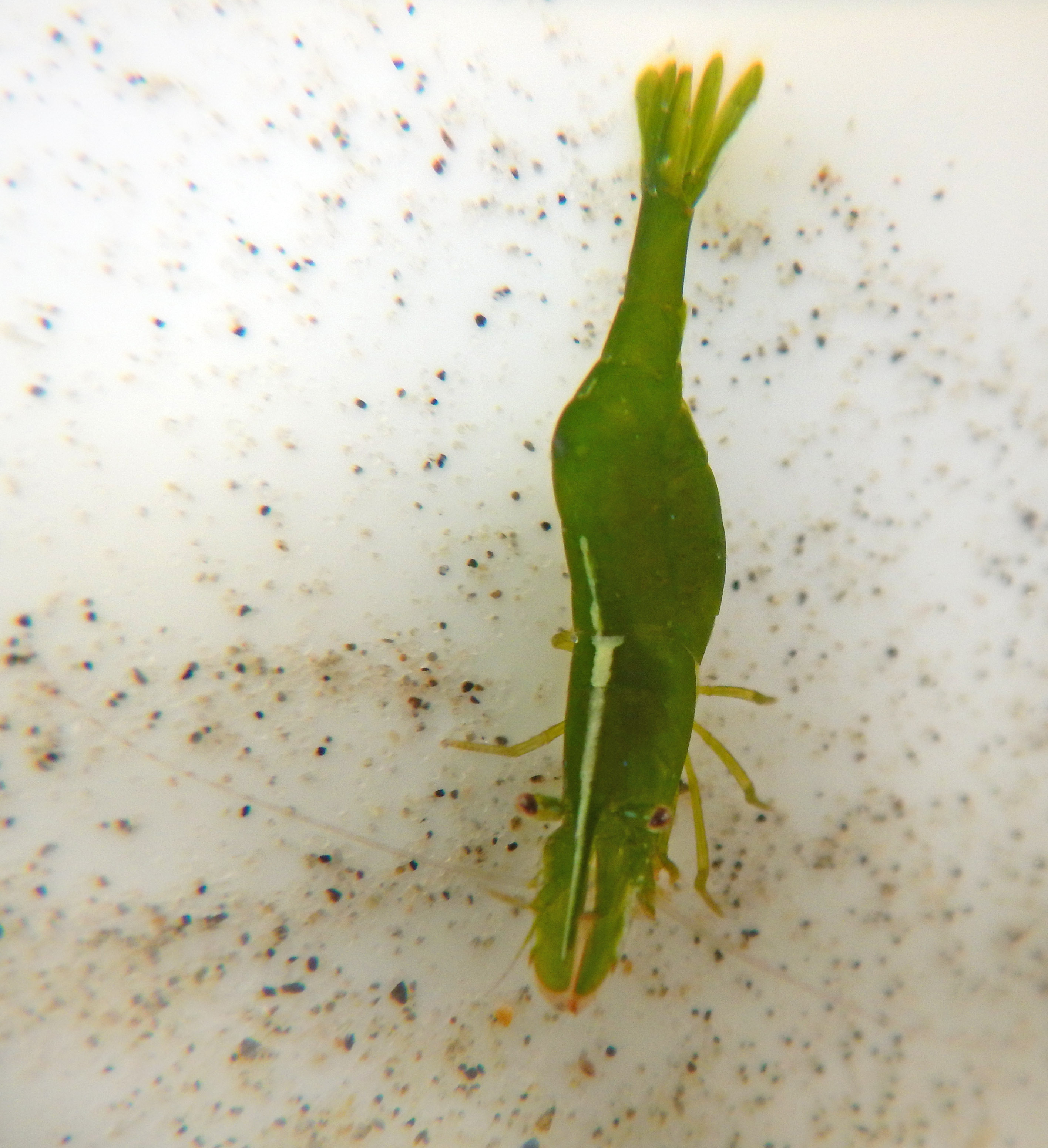 Shrimp Hippolyte varians photographed in Wimmereux, northern France (found on the foreshore, in a water hole) on 16 July 2016. This animal can take different color according to its environment and hour of the day.